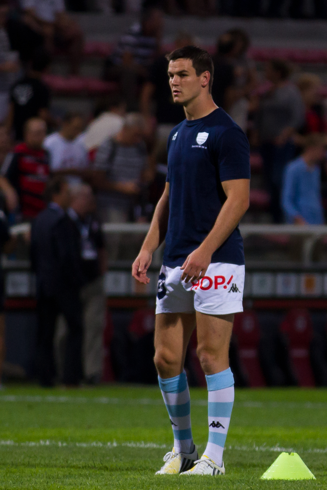 Jonathan Sexton with the jersey of Racing Metro 92 in Toulouse